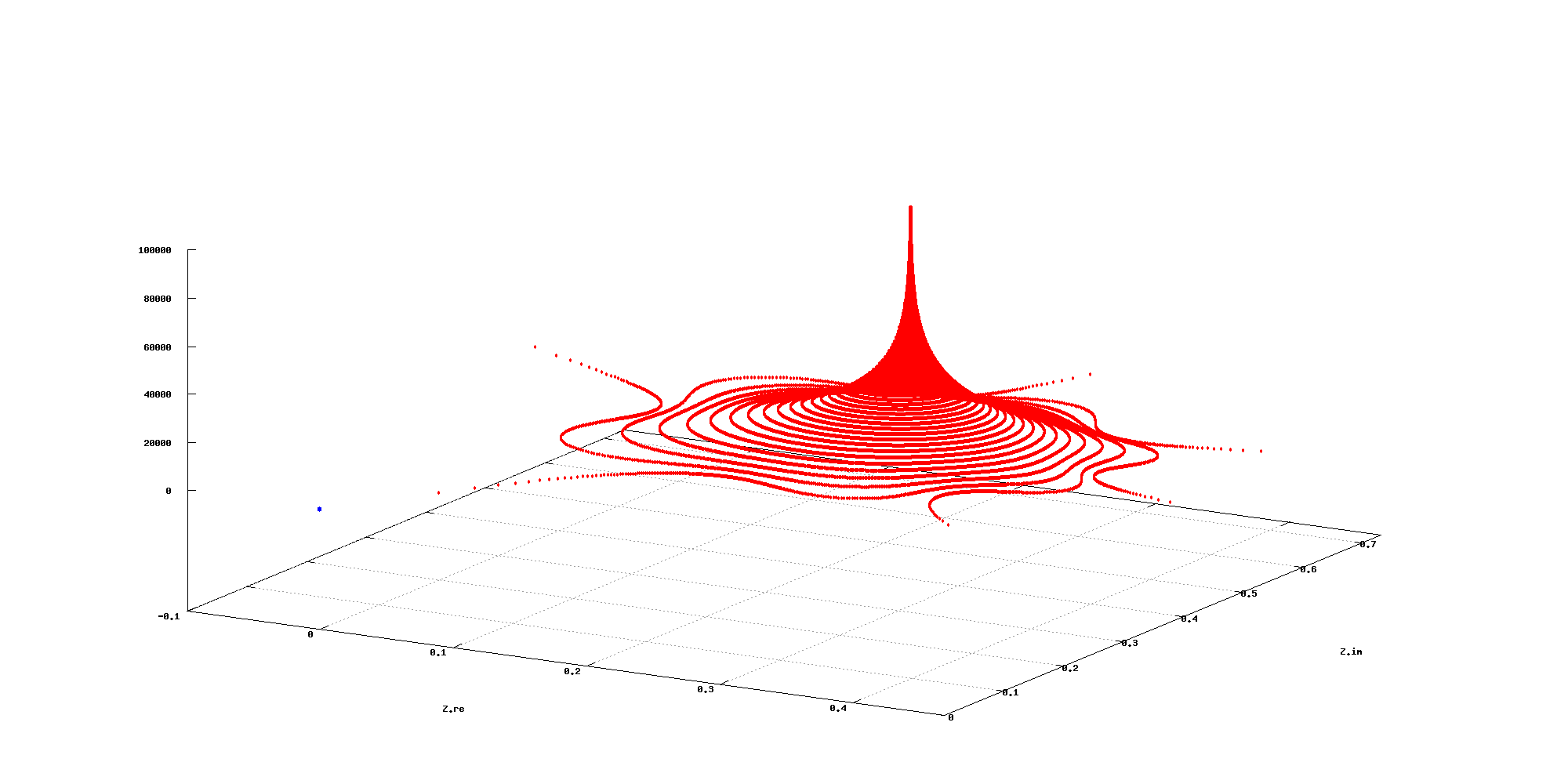 3D view of critical orbit of c = i*0.21687214+0.37496784 for complex quadratic polynomial. It tends to weakly attracting fixed point zf with abs(multiplier(zf)=0.99993612384259 . Point c is near root of period 6 component of Mandelbrot set.